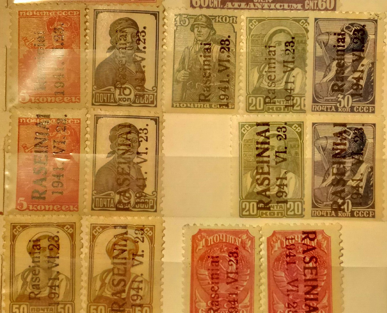 USSR postal stamps overstamped by the Third Reich stamp in 1941.